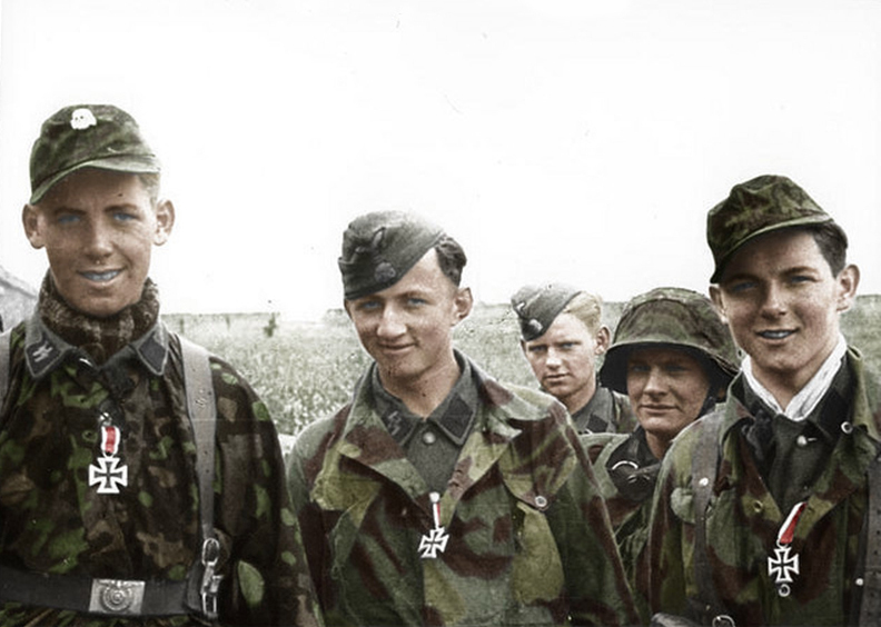 This is a retouched picture, which means that it has been digitally altered from its original version. Modifications: recolored by User:Ruffneck88. == Recolored Version of this image. Frankreich, Männer der Waffen-SS mit EK Photographer Woscidlo, WilfriedArchive description Description provided by the archive when the original description is incomplete or wrong. You can help by reporting errors and typos at Commons:Bundesarchiv/Error reports. An der Invasionsfront bei Caen.- Männer der W-SS nach Verleihung des Eisernen Kreuzes II., 1944 SS-PK: WoscidloTitle Frankreich, Männer der Waffen-SS mit EK Depicted place FranceDate 1944date QS:P571,+1944-00-00T00:00:00Z/9Collection German Federal Archives Native nameDas BundesarchivLocationKoblenz (headquarters)Coordinates50° 20′ 32.71″ N, 7° 34′ 21.22″ E Established1946Web page control : Q685753 VIAF: 137346469 ISNI: 0000 0004 0555 2728 LCCN: n92025526 NLA: 36455393 Open Library: OL55798A WorldCat institution QS:P195,Q685753Current location Sammlung von Repro-Negativen (Bild 146)Accession number Bild 146-1984-035-09A Source This image was provided to Wikimedia Commons by the German Federal Archive (Deutsches Bundesarchiv) as part of a cooperation project. The German Federal Archive guarantees an authentic representation only using the originals (negative and/or positive), resp. the digitalization of the originals as provided by the Digital Image Archive.